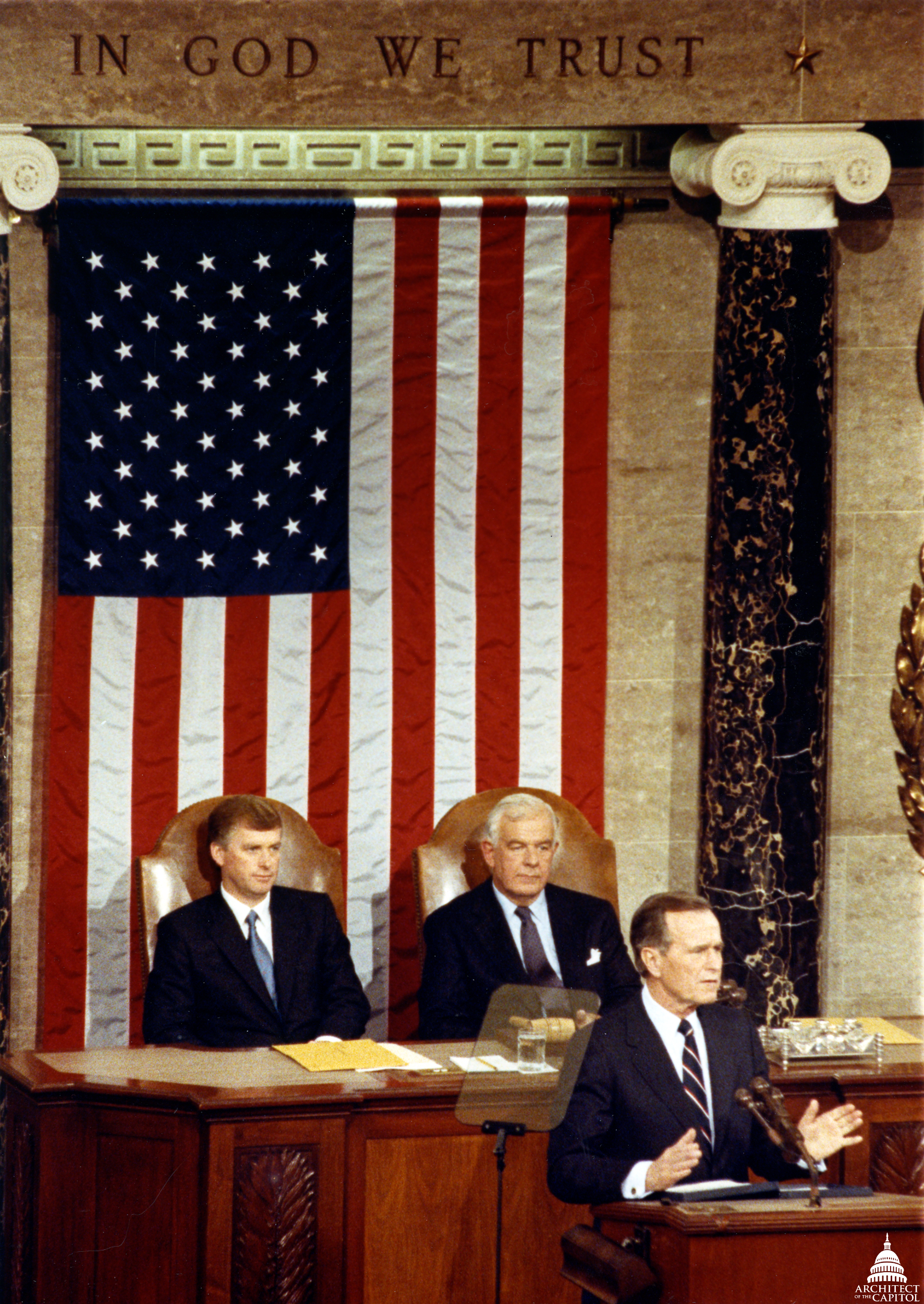 President George H.W. Bush delivers the State of the Union Address. In the chairs are Vice President Dan Quayle and Speaker Thomas Foley.